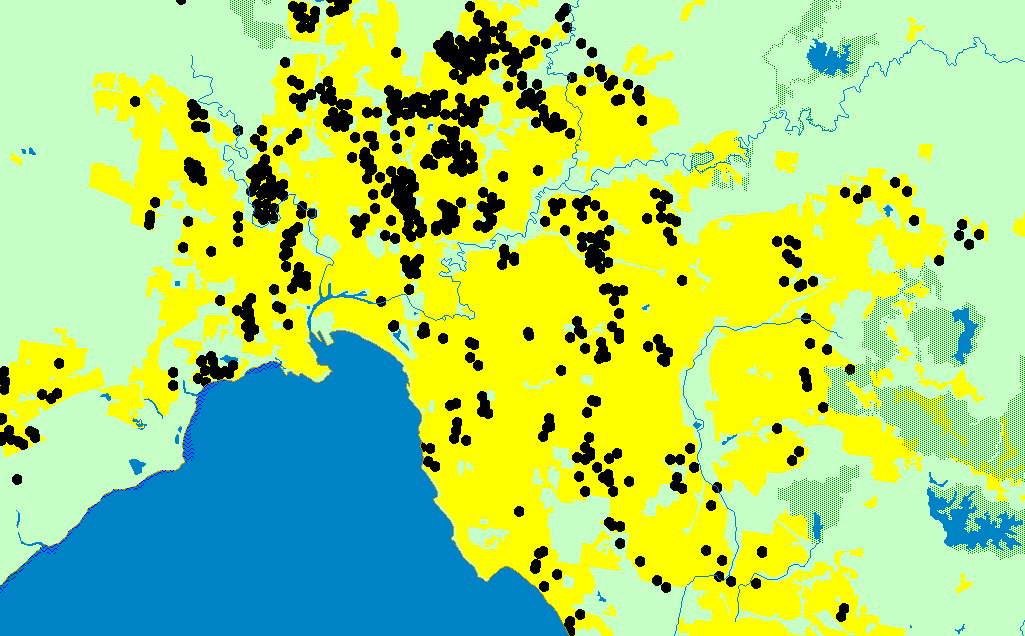 Italy-born residents in Melbourne, 2006 (one dot equals 100 such residents in a collection district)